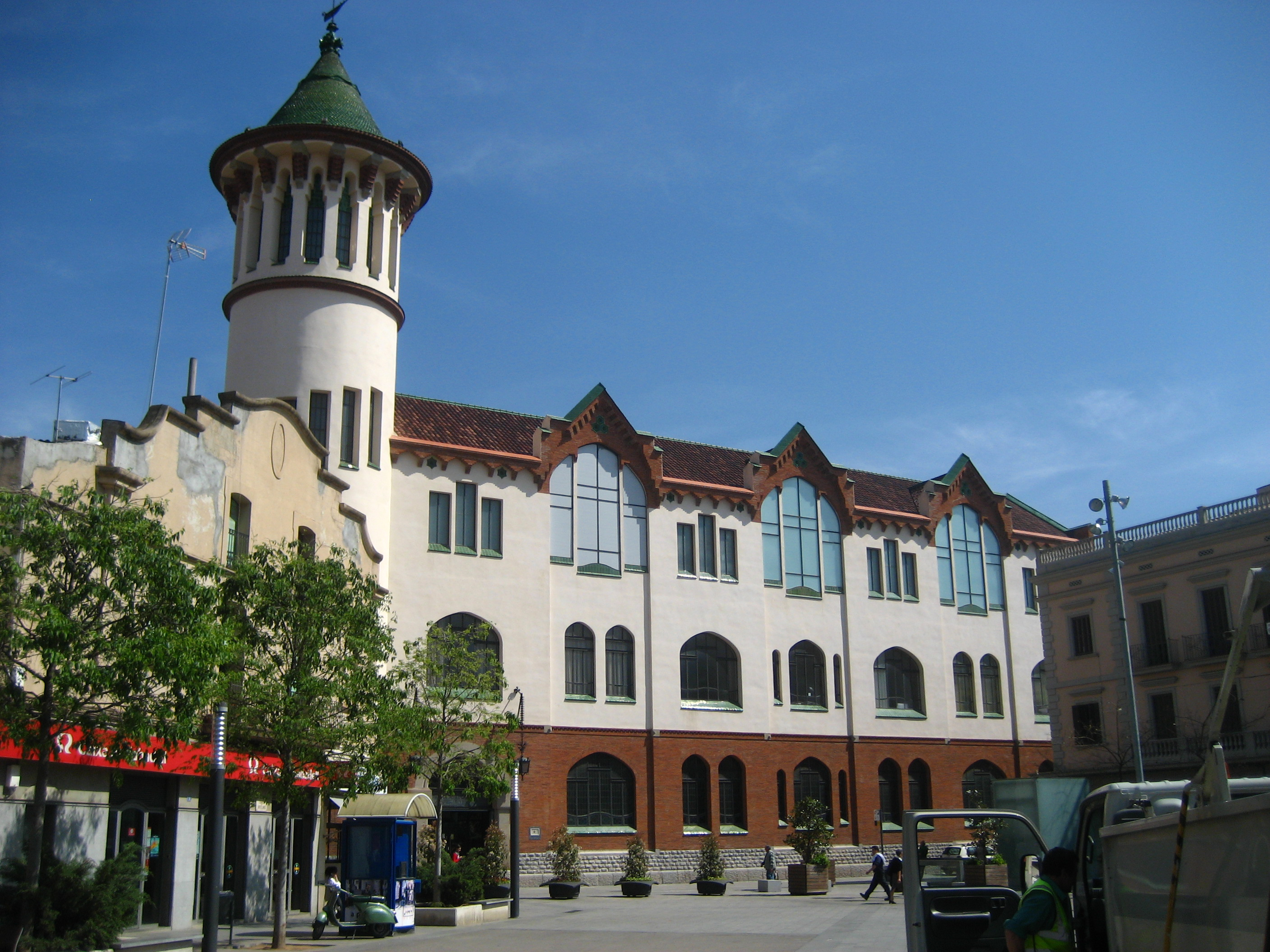 Modernist building in Sabadell (Catalonia), property of Caixa Sabadell